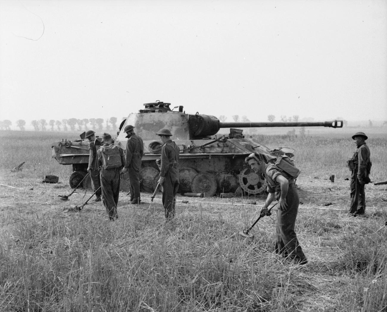 Royal Engineers search for mines near a knocked out German Panther tank, near Villers Bocage, 4 August 1944.